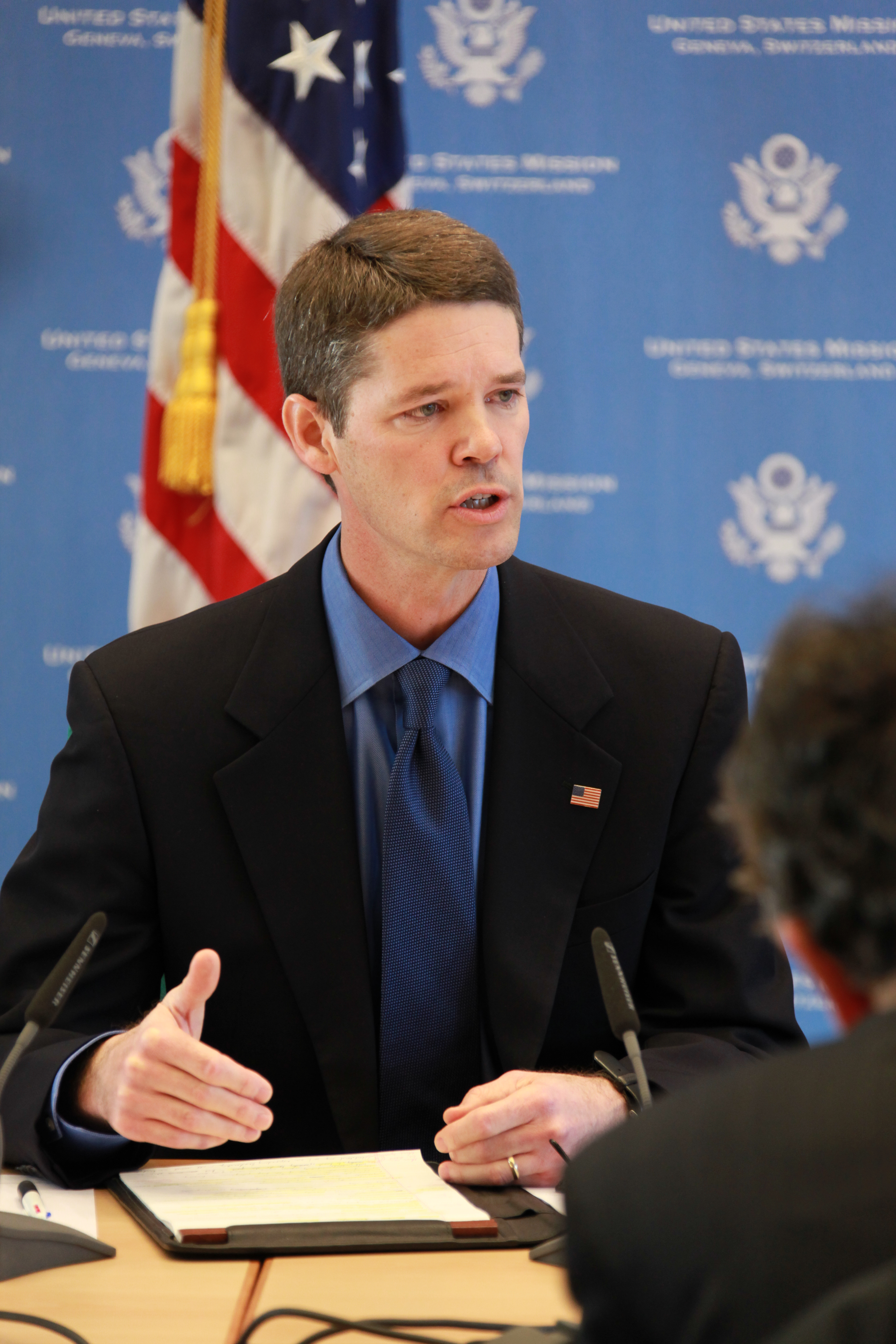 Ambassador Michael Punke, U.S. Permanent Representative to the World Trade Organization and Deputy U.S. Trade Representative, held a press briefing at the U.S. Mission in Geneva on January 13, 2011. U.S. Mission Photo: Eric Bridiers